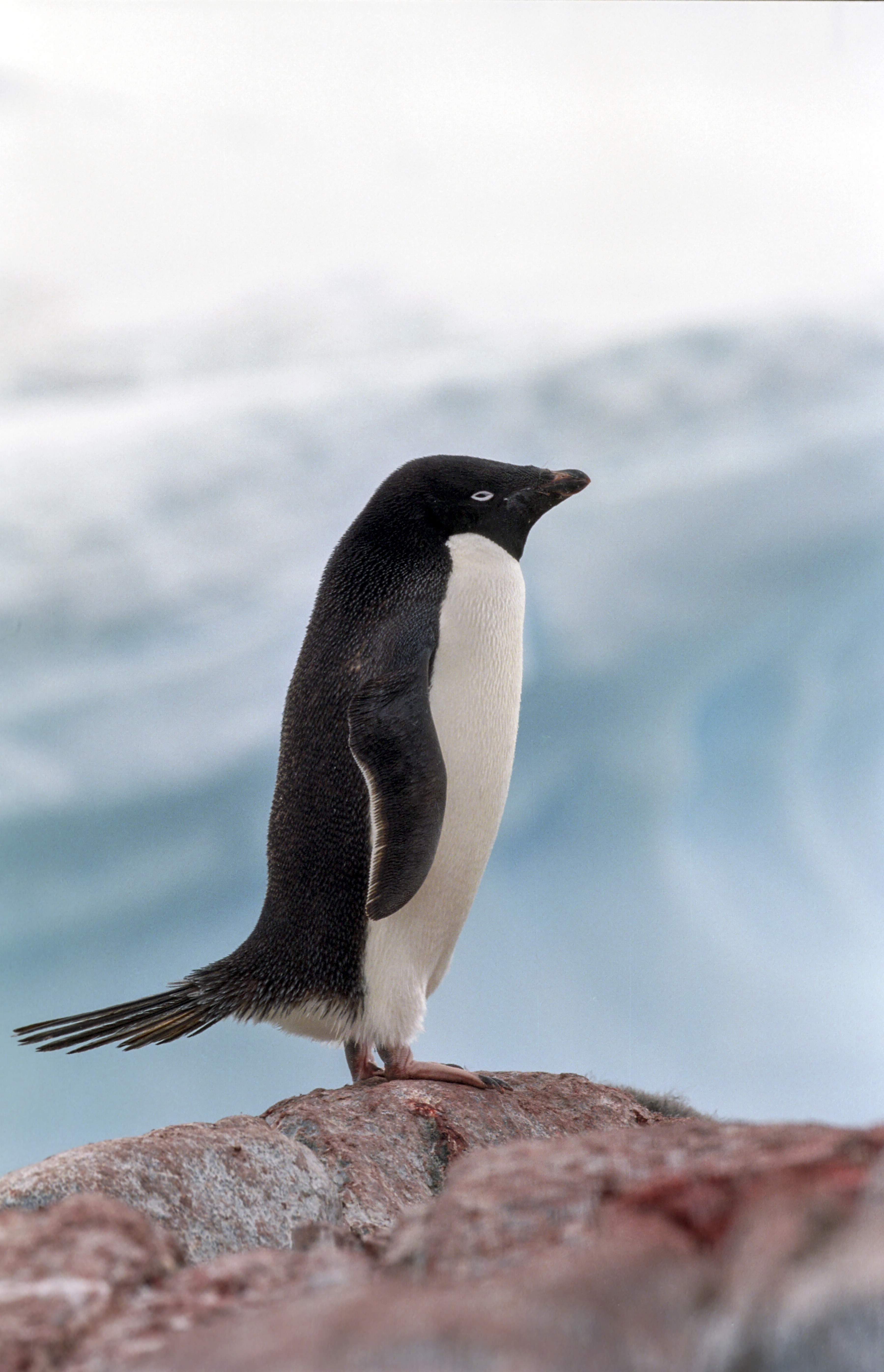 Adelie Penguin